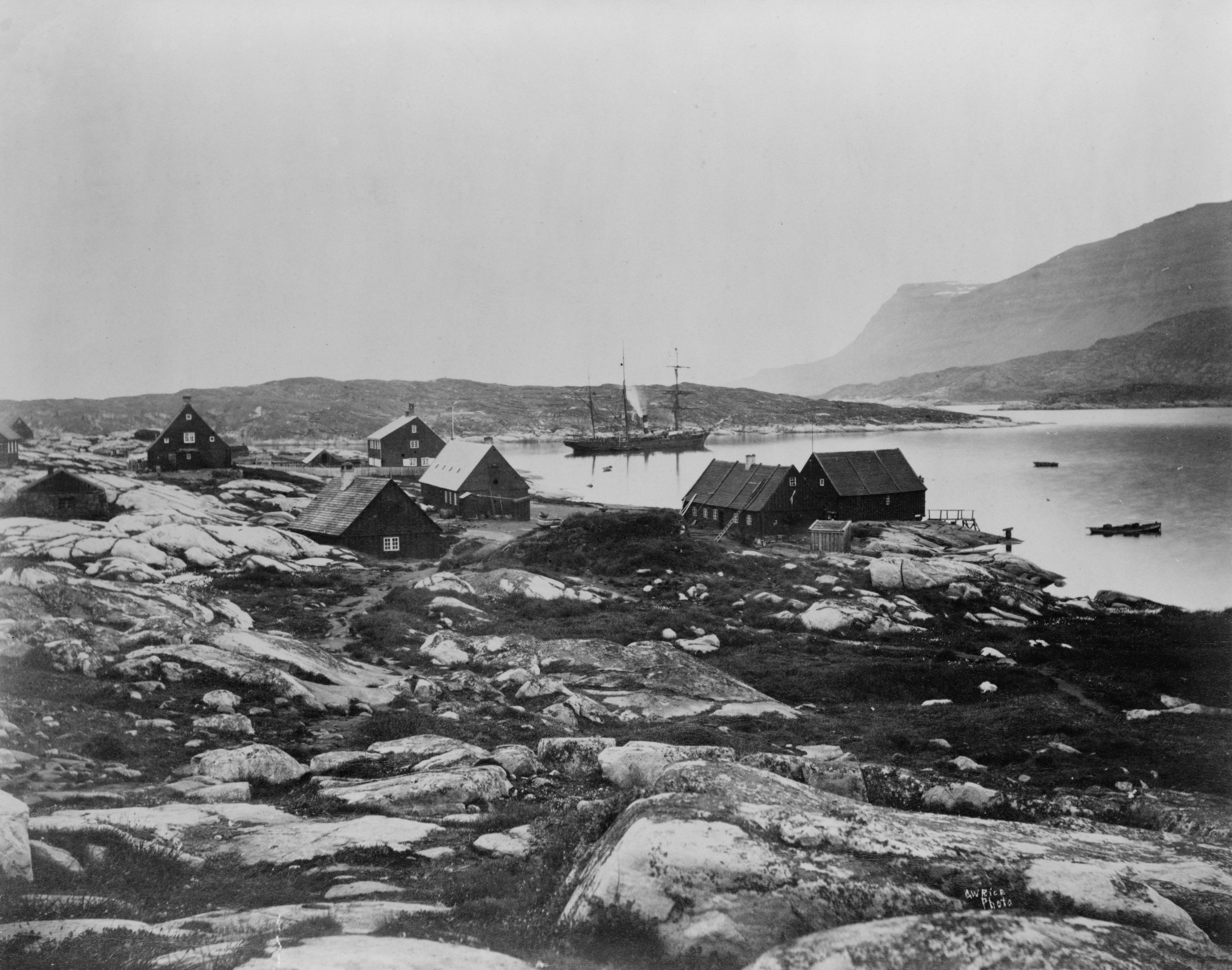 The steamer Proteus in the harbor at Qeqertarsuaq during the Lady Franklin Bay Expedition.